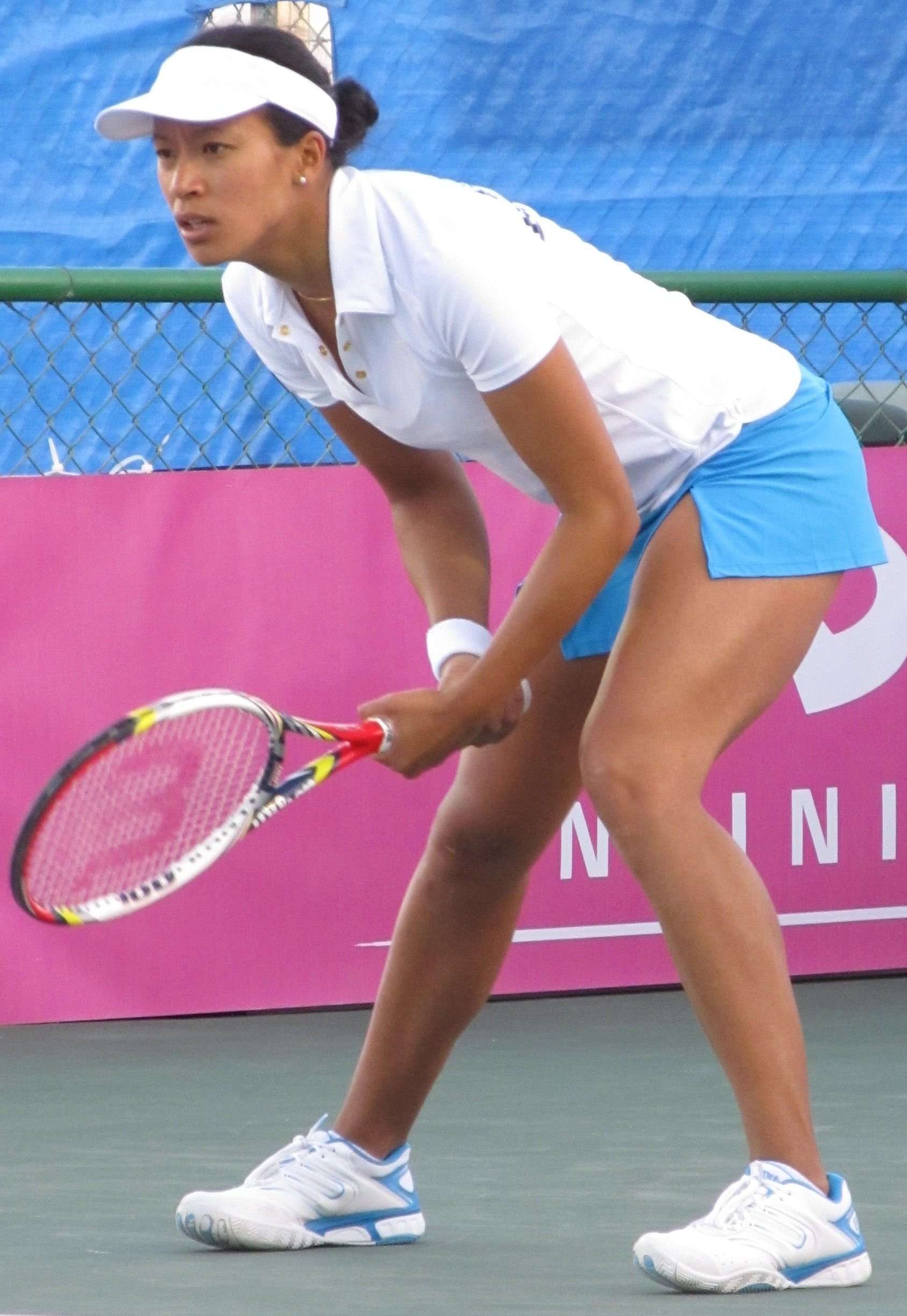 The tennis player Anne Keothavong of Great Britain during her match against Patricia Mayr-Achleitner of Austria in the 4th day of Fed Cup Group I 2012 Europe/ Africa in Eilat, Israel